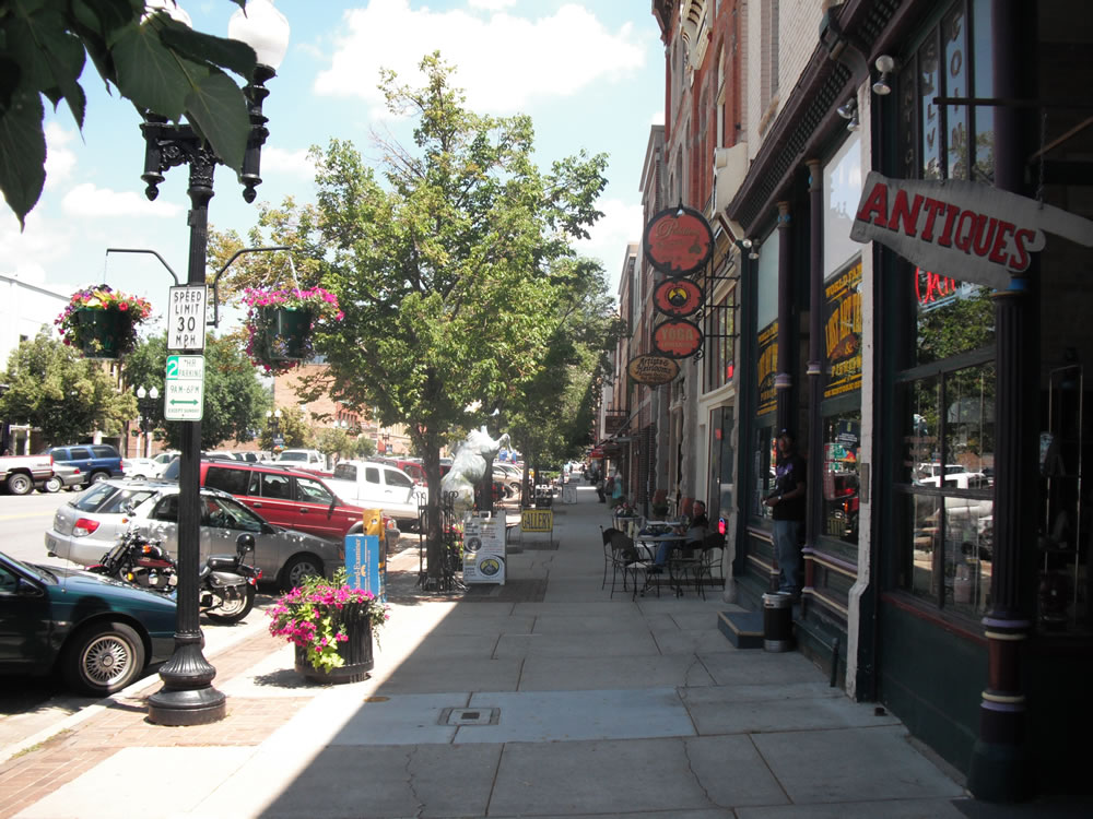 A view of 25th Street in Ogden, Utah.